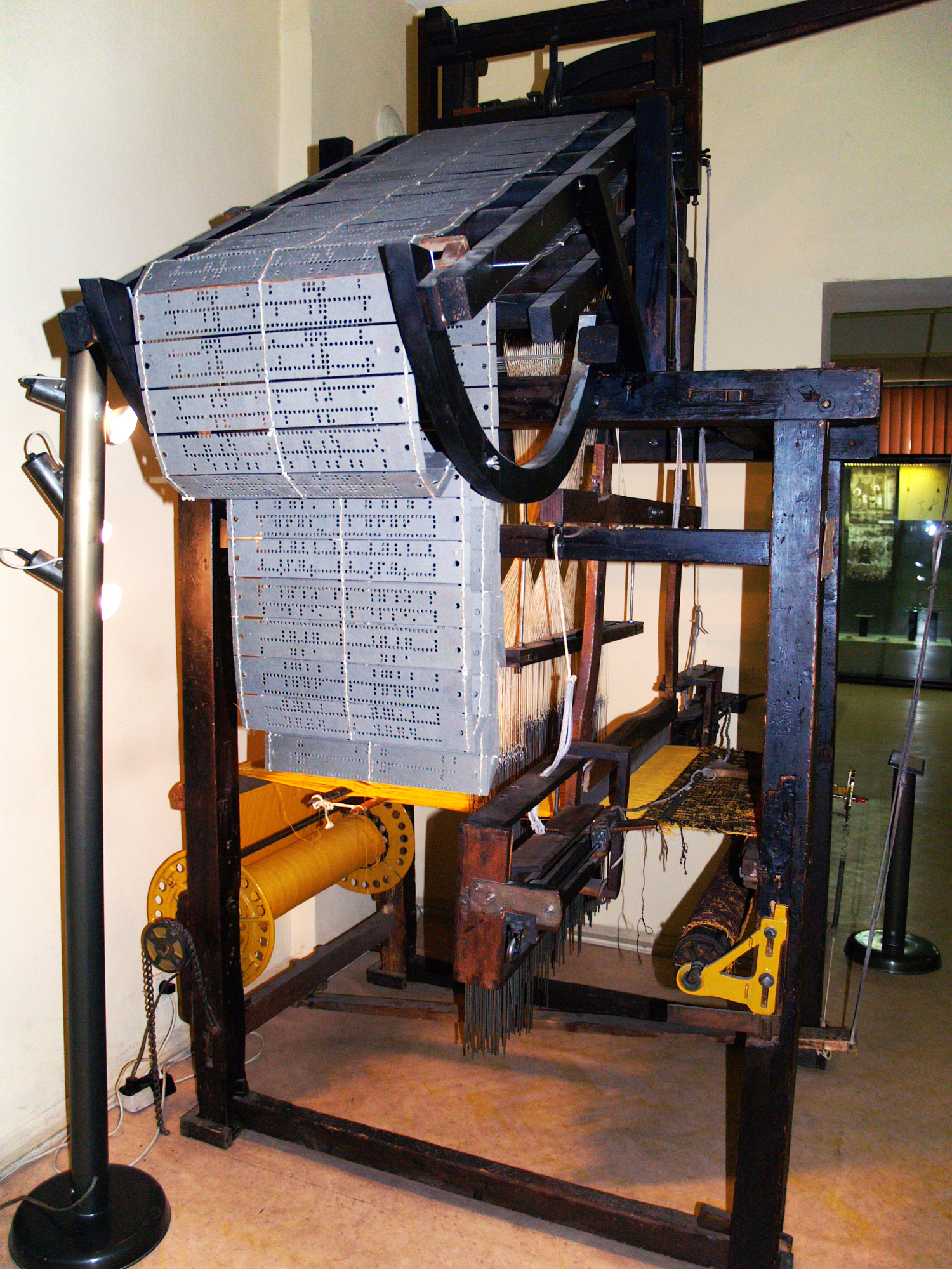 Austrian hand-driven Jacquard loom, end of 19th century, now in the National Museum of the Textile Industry, Sliven, Bulgaria